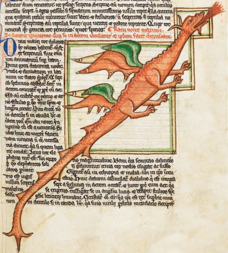 Dragon illustration in 13th century manuscript